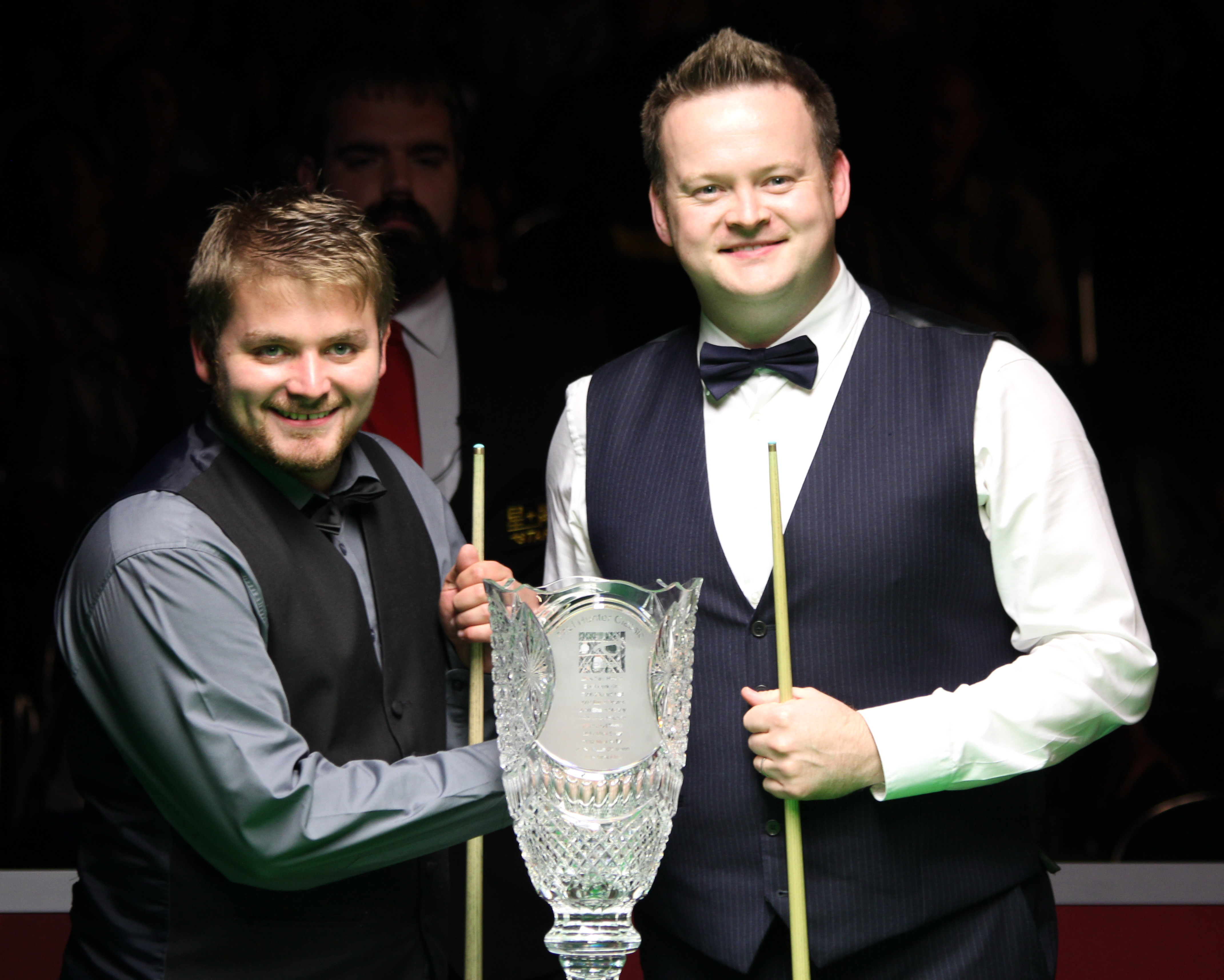 Michael White and Shaun Murphy before the final of the Paul Hunter Classic 2017